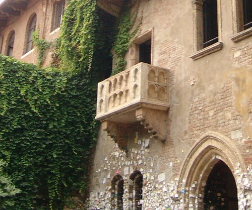 Balcony of Julia (from Romeo and Julia fame) in Verona